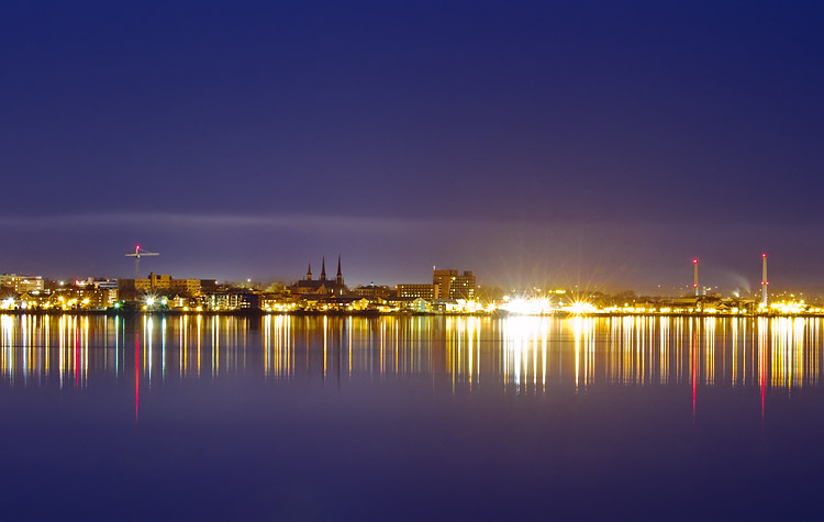 A view of Charlottetown, PEI skyline from Rocky Point.